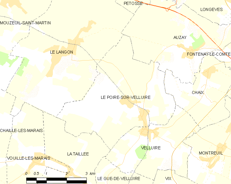 Map of French municipality Le Poiré-sur-Velluire